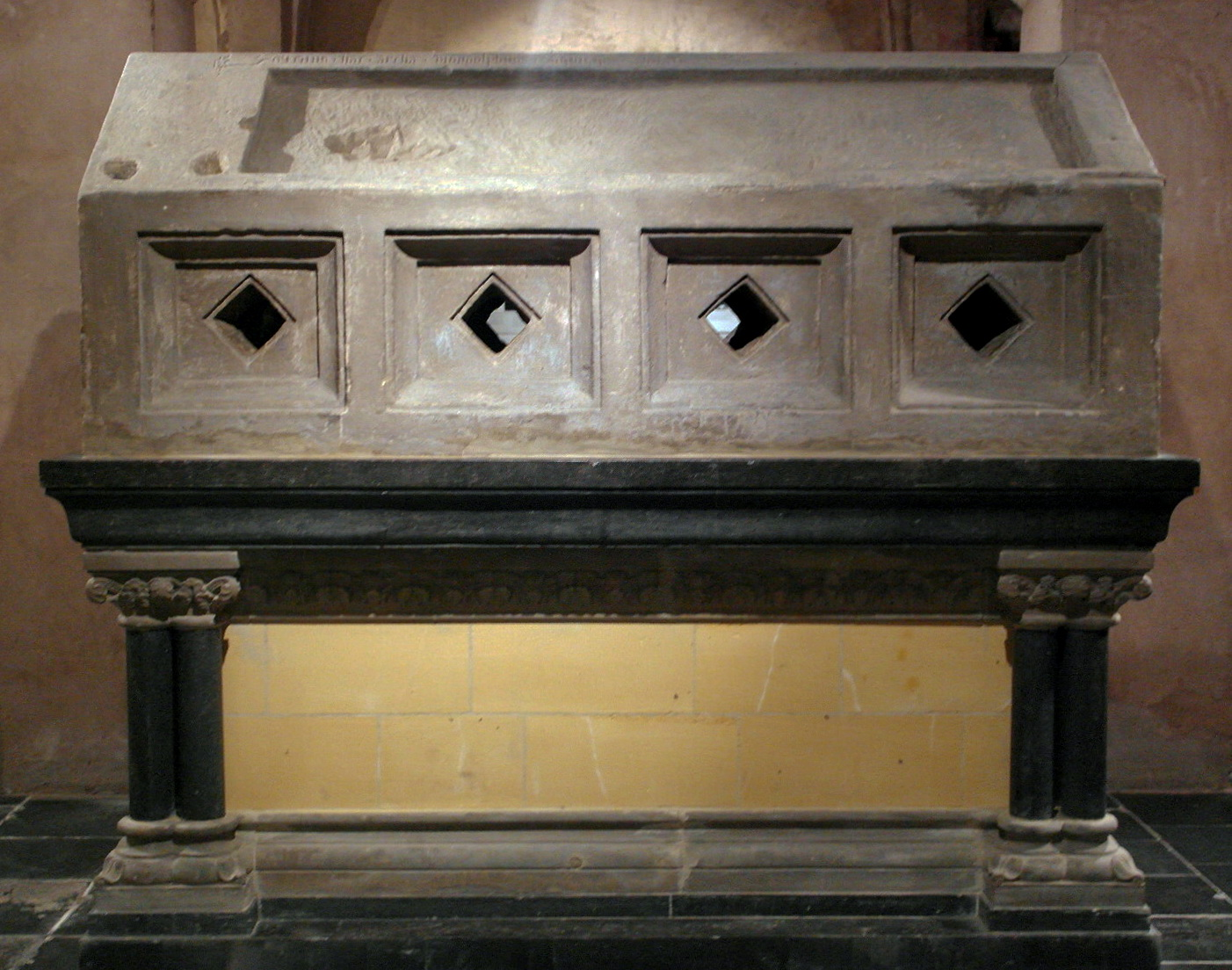 View from the south of the 11th-century cenotaph of Monulph and Gondulph in the East Crypt lapidarium of the Basilica of Saint Servatius in Maastricht, the Netherlands. The cenotaph was commissioned by provost Humbert († 1086), as was listed on his burrial cross. It was erected in medio ecclesia (in the axes of the church) above the grave(s) of the 6th-century bishops Monulph and Gondulph, traditionally considered to be the founders of the church. The bottomless cenotaph was placed over the open grave and pilgrims could stick their hands through one of twelve diamond-shaped openings in order to (almost) make contact with the ground in which the saints were burried. The cenotaph was burried in the 17th century and rediscovered by the architect Pierre Cuypers in the late 19th century. The Romanesque Revival altar was designed by Cuypers.